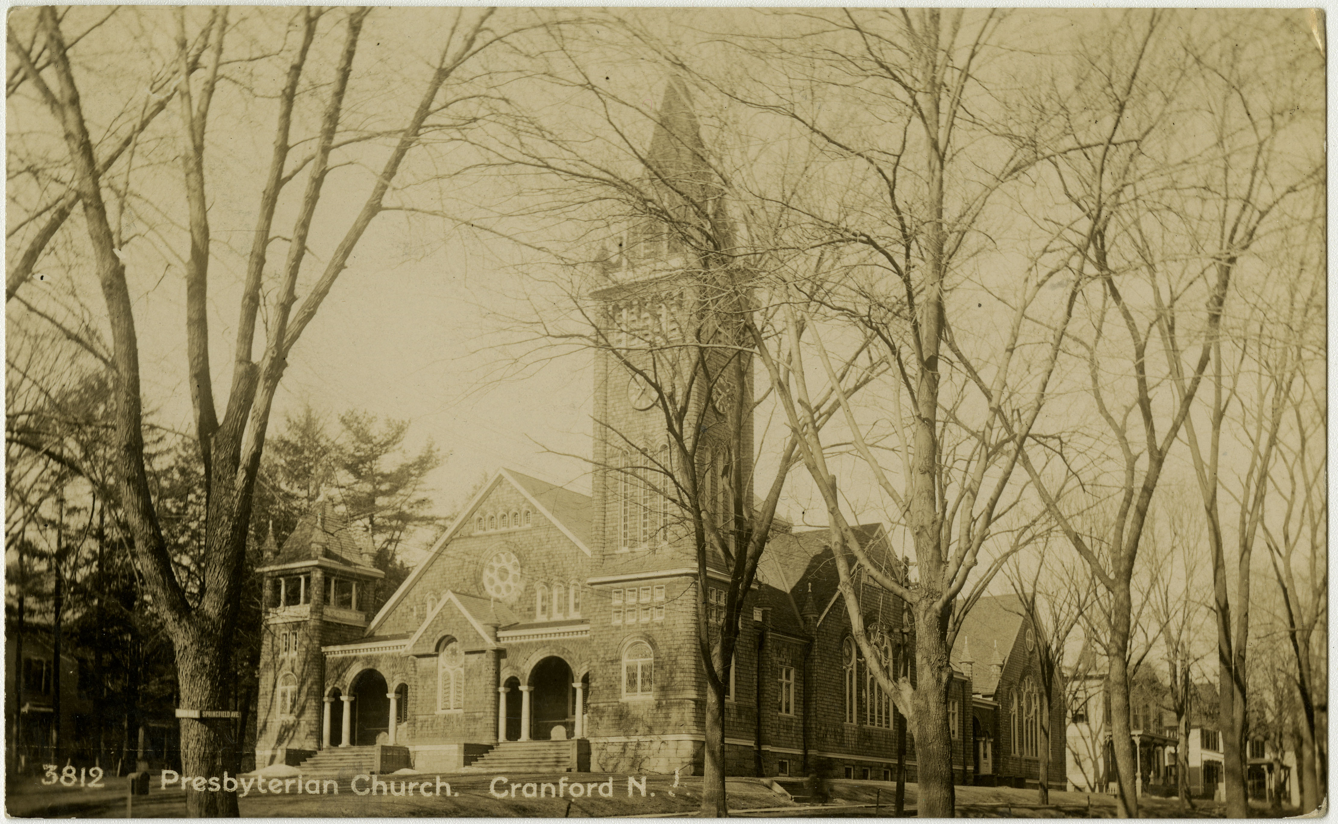 Presbyterian church in Cranford, New Jersey from a pre-1923 postcard From RG 428, Postcard Collection, Presbyterian Historical Society, Philadelphia, Pennsylvania.